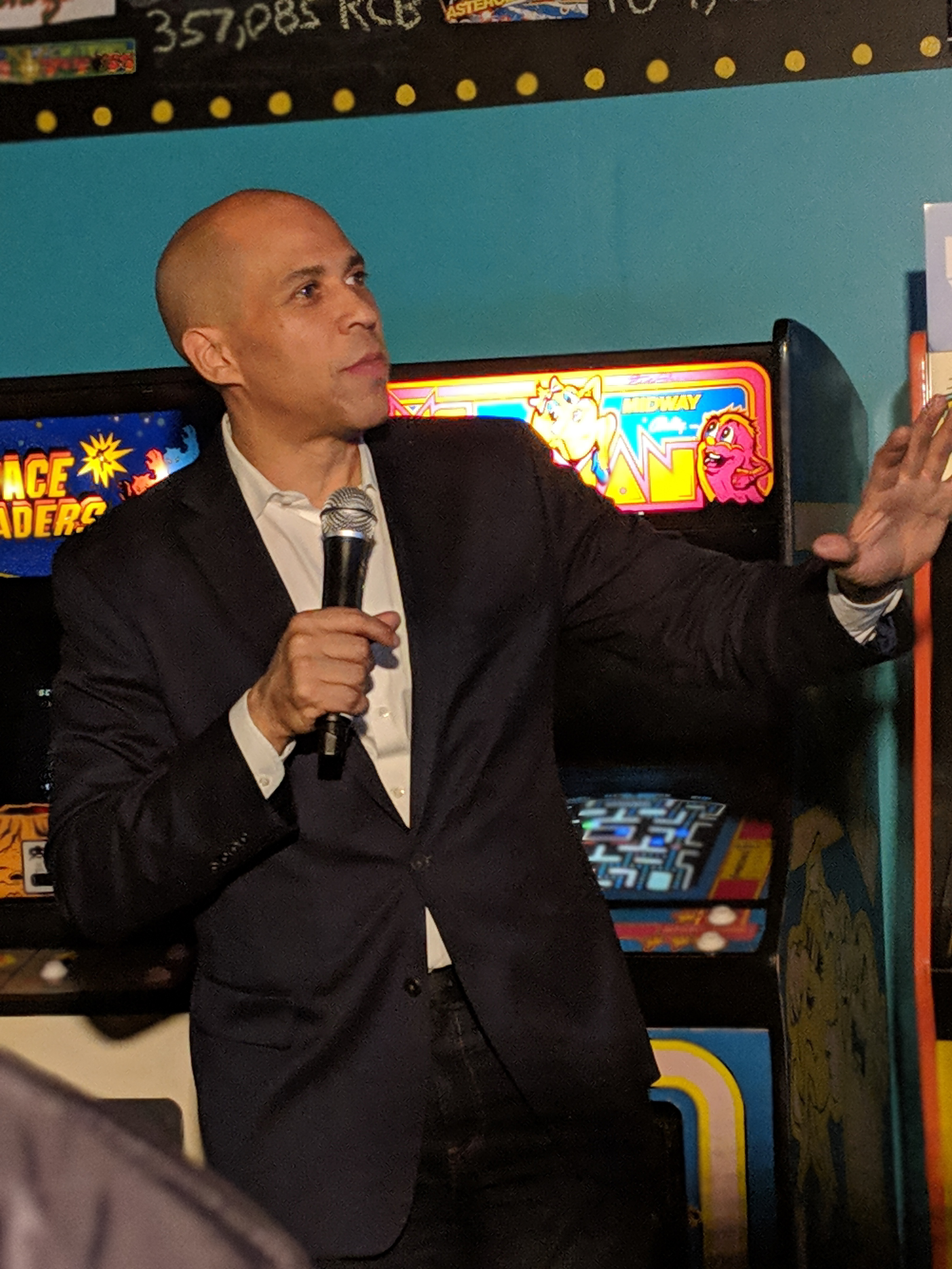 Cory Booker in Manchester (January 17, 2019)